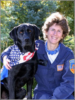 FEMA notice confirming status